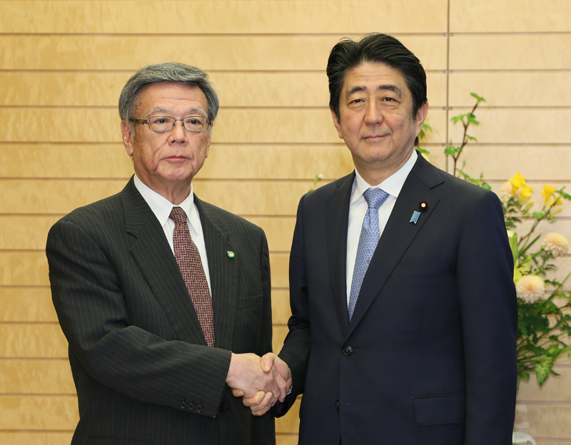 Governor of Okinawa Prefecture Takeshi Onaga and Japanese Prime Minister Shinzō Abe shaking hands.